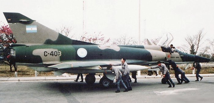 Argentine Air Force IAI Dagger at Jujuy Airport during Operativo Blasón manouvers